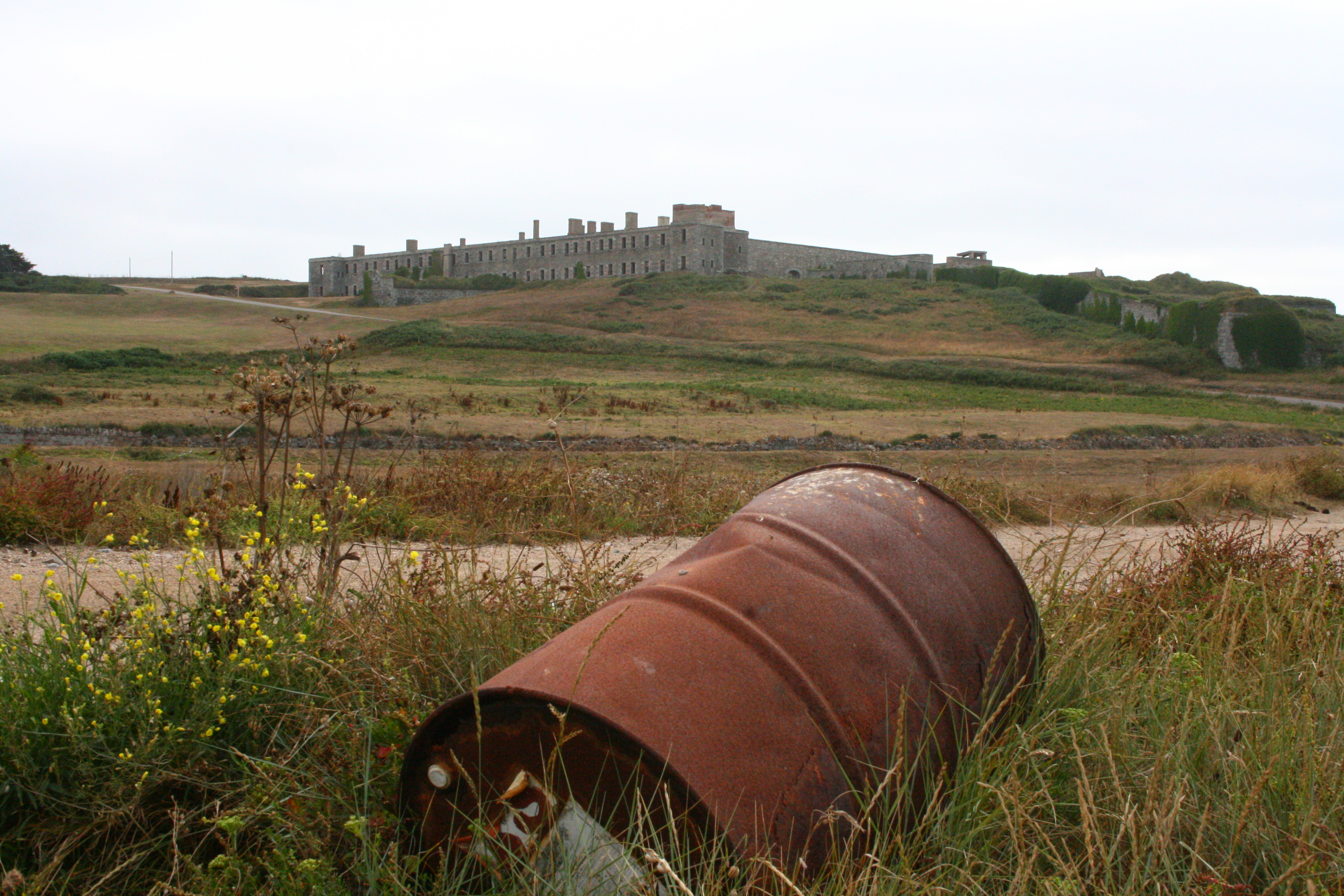 Taken from Platte Saline Beach, the Victorian fort stands atop the hill.